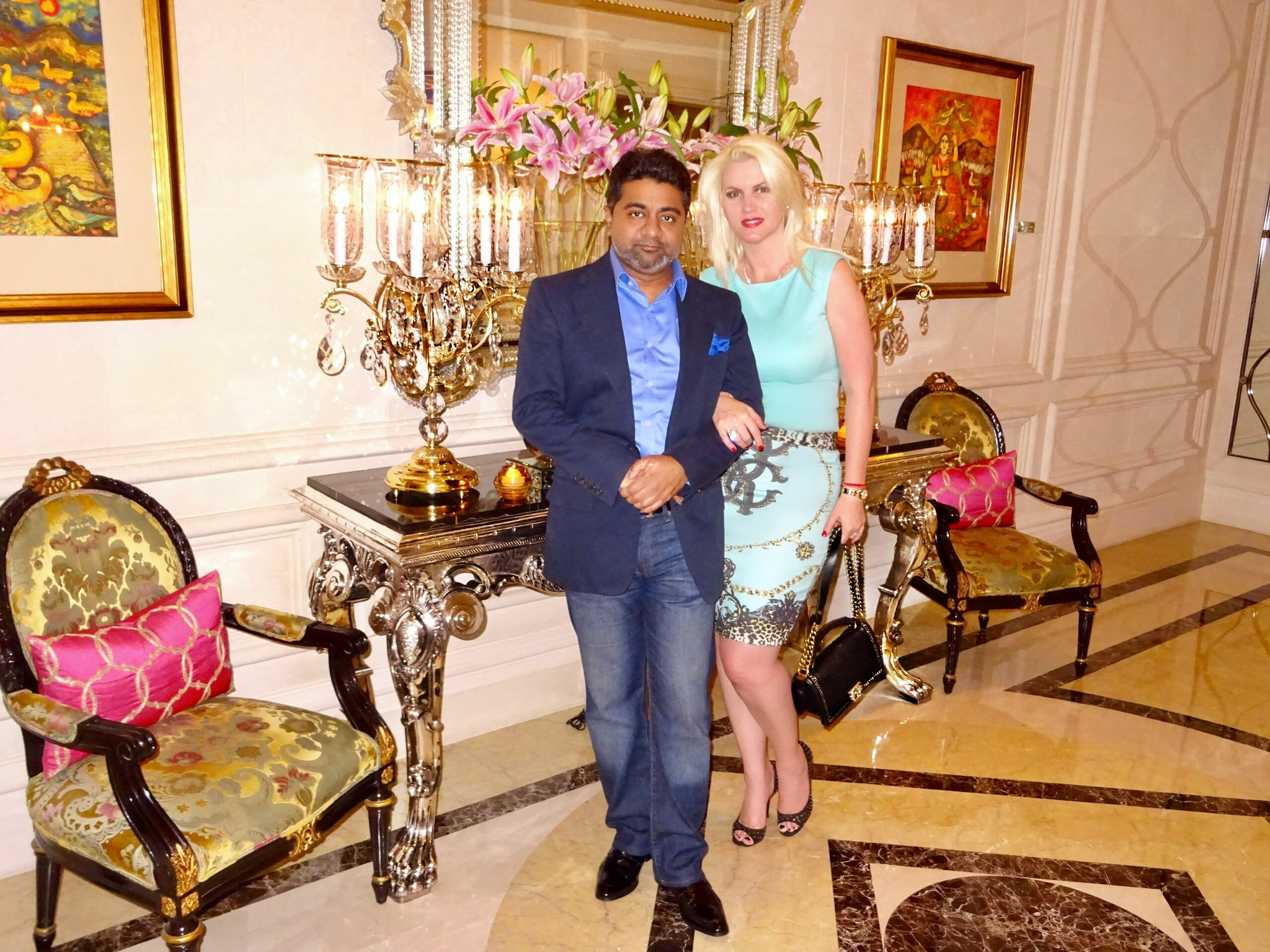 Arms Dealer & Lord of War Abhishek Verma with his supermodel wife Anca Verma (former Miss Romania Universe)